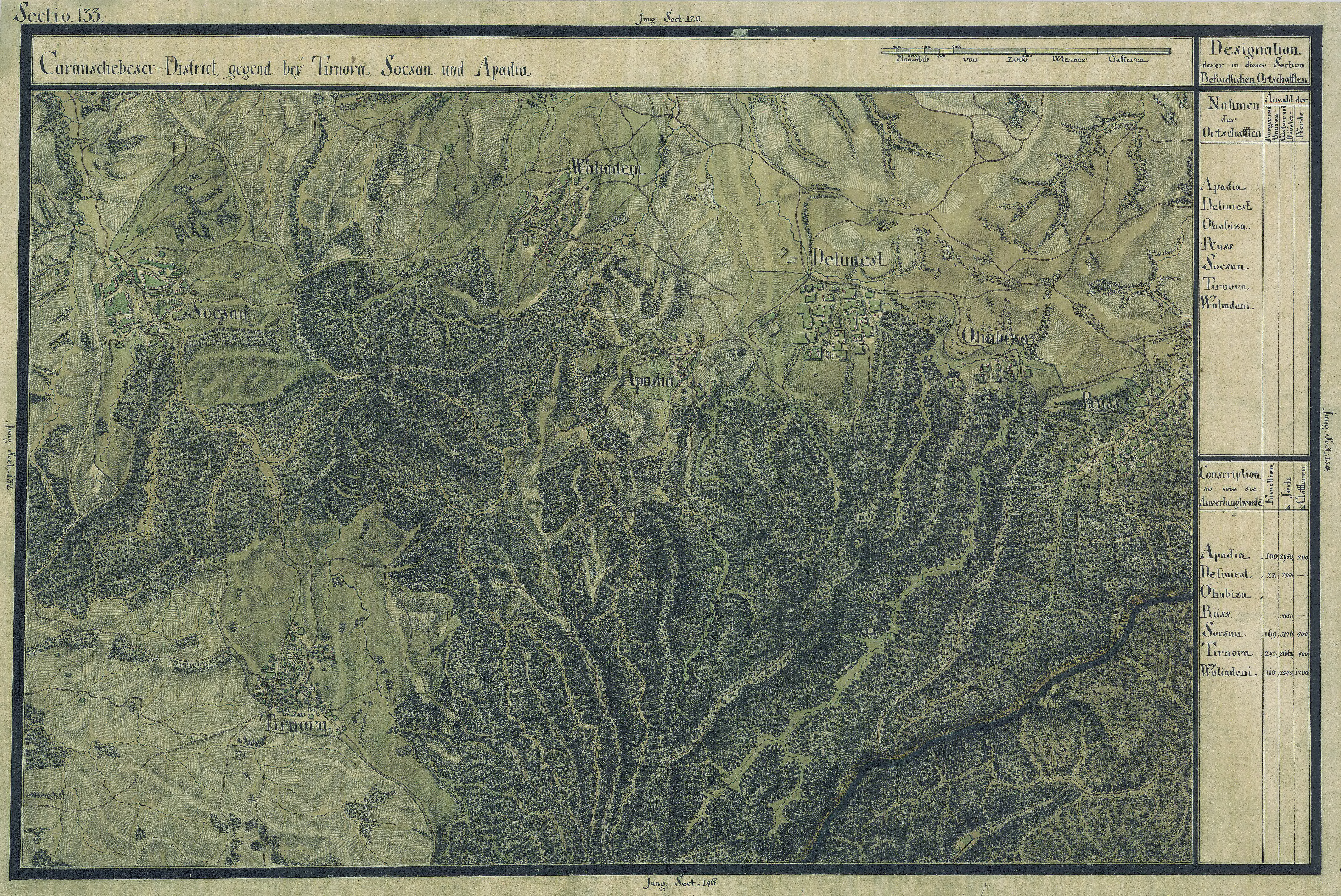 The Banat region in the cadastral maps: Josephinische Landesaufnahme, 1769-72. Josephinische Landaufnahme pg133